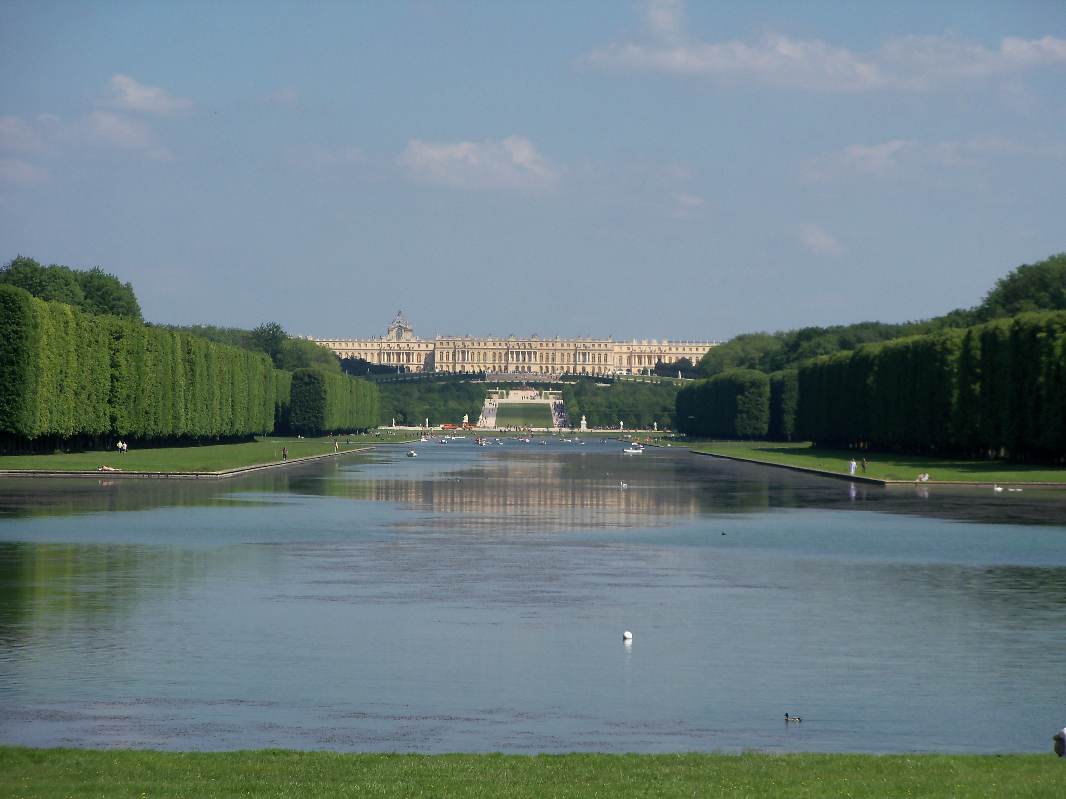 A panorama shot of the Palaca of Versailles, Versailles, France, south-west of Paris. Made during my private vacation to Paris in 2010. Recommend everyone to visit the chateau and gardens of Versailles, they are marvels of our civilization.